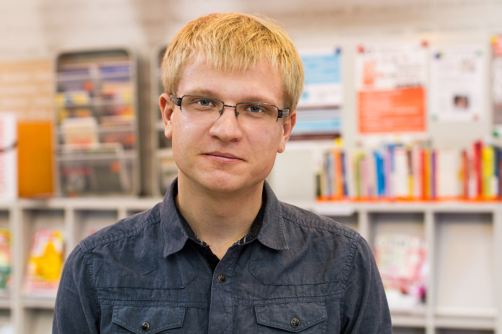 Oleksandr Myched on Authors’ Reading Month 2015, Wrocław, Poland